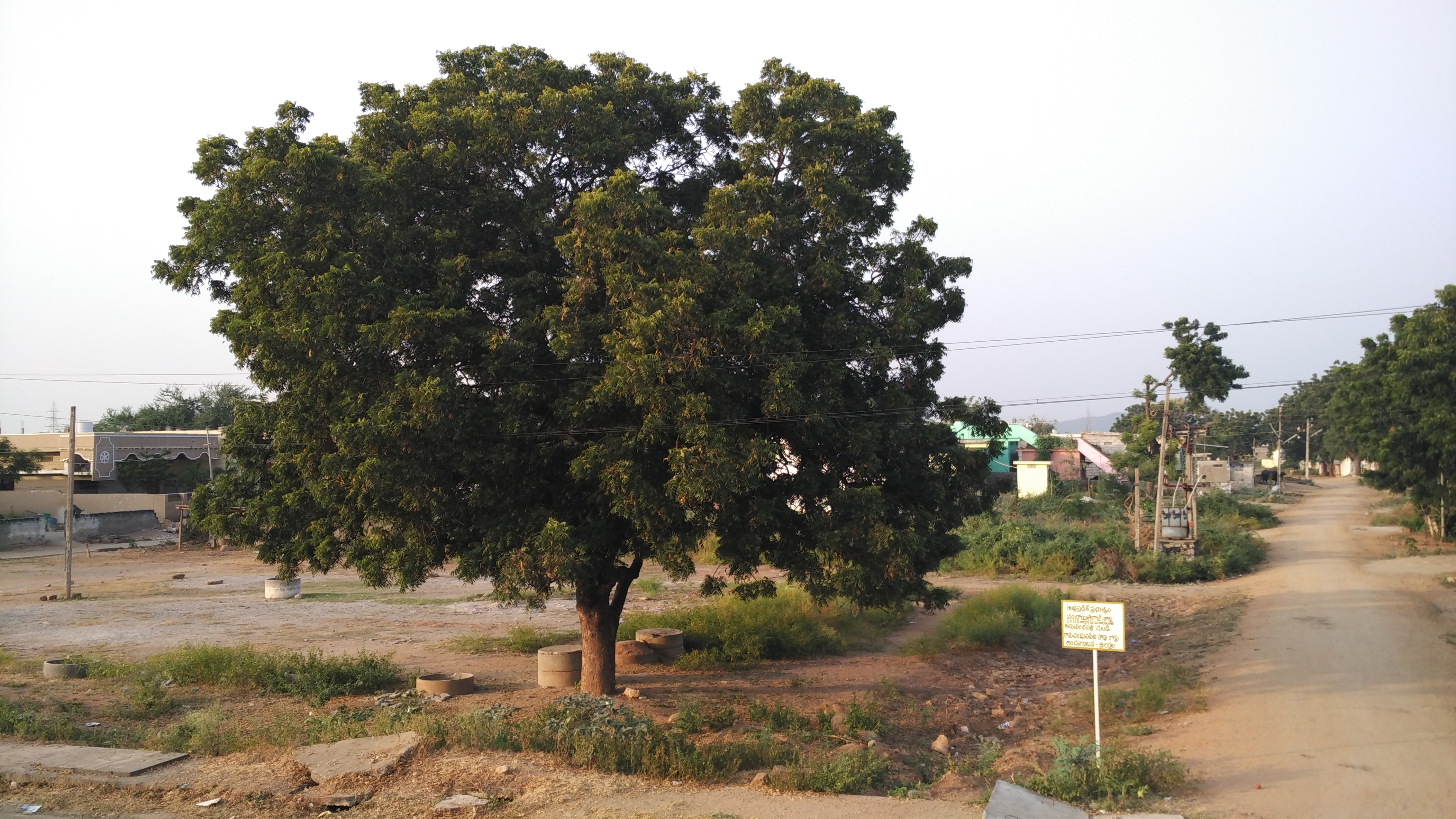 Anumanchipalli Village_Jaggayyapeta Mandal_Krishna District